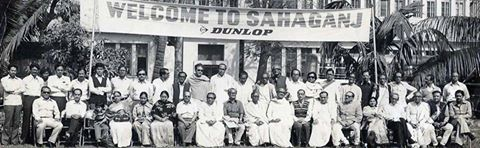 Bengali Literary Luminaries of 1970s Samaresh Basu,Santoshkumar Ghose,Sagarmoy Ghosh, Bimal Mitra,Ramapada Choudhuri,Nirendranath Chakroborty,Gajendra kumar Mitra,Sumothonath Ghosh,Sankar, Amitava Choudhuri, Sankariprasad Basu,Said Mustafa Siraj,Sanjib Chatterjee,Shyamal Ganguli,Buddhadev Guha,Prafulla Roy,Baren Gunguly.Sekhar Basu sits extreme right in front rowSamaresh Basu,Santoshkumar Ghose,Sagarmoy Ghosh, Bimal Mitra,Ramapada Choudhuri,Nirendranath Chakroborty,Gajendra kumar Mitra,Sumothonath Ghosh,Sankar, Amitava Choudhuri, Sankariprasad Basu,Said Mustafa Siraj,Sanjib Chatterjee,Shyamal Ganguli,Buddhadev Guha,Prafulla Roy,Baren Gunguly.Sekhar Basu sits extreme right in front row